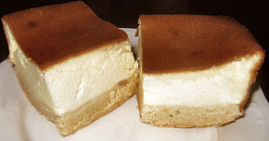 Common Sernik